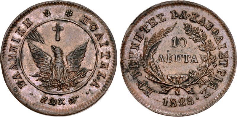 GREECE, Hellenic Republic. Ioannis Antonios Kapodistrias. Governor, 1827-1831. CU 10 Lepta (35mm, 15.87 g, 6h). Aegina mint. Dated 1828. Phoenix rising from flames, head upturned left, with wings spread; rays to upper left, long cross above / Denomination in two lines; all within wreath.